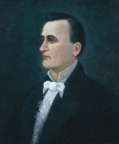 John Breathitt (1786–1834), the 11th Governor of the U.S. state of Kentucky